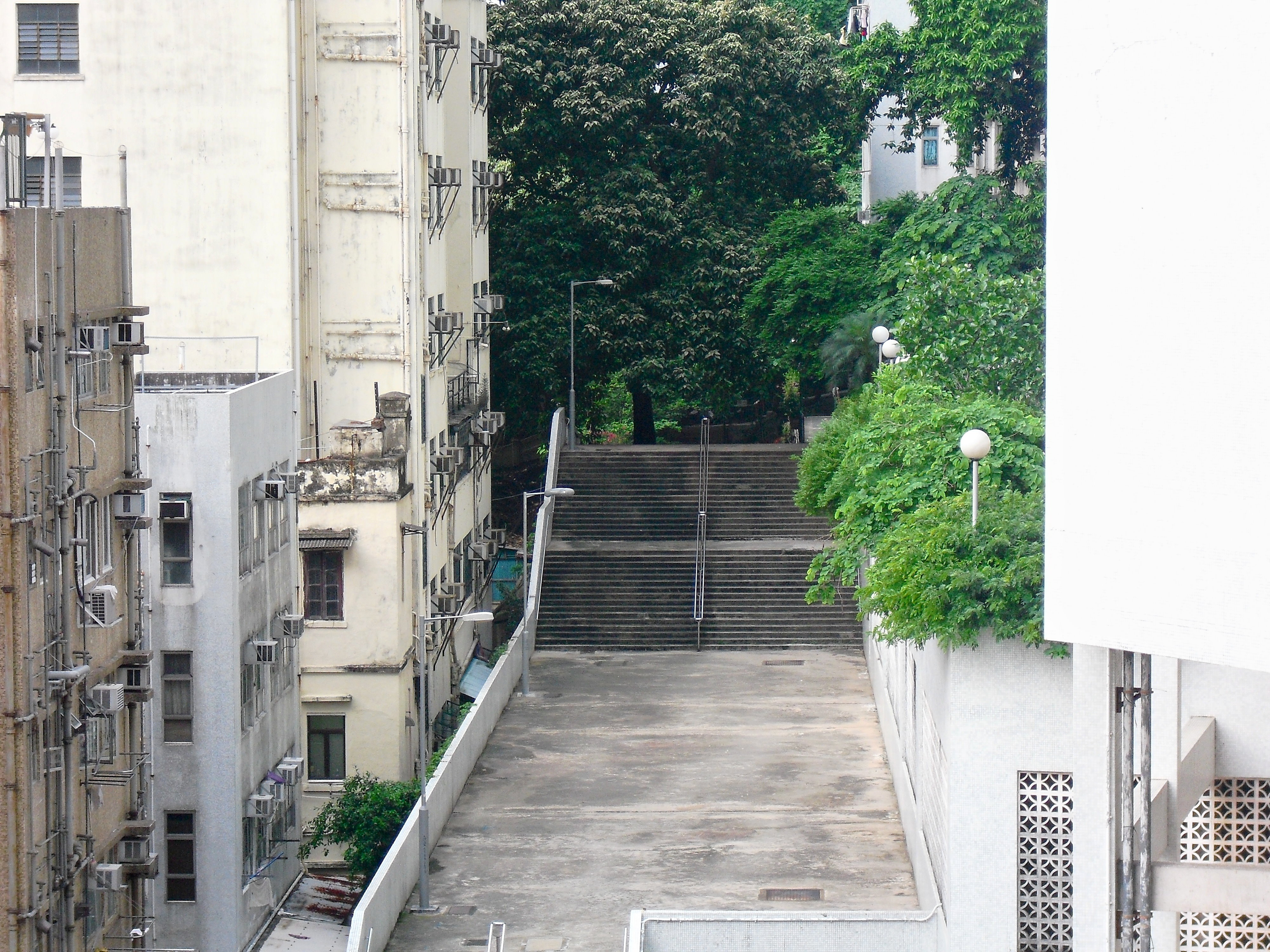 The view of To Li Terrace. 中文（香港）: 桃李臺的景觀